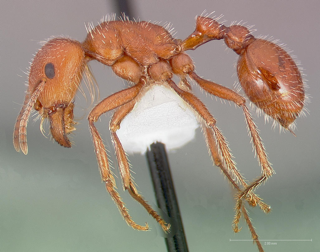 Profile view of ant Pogonomyrmex maricopa specimen casent0005712.